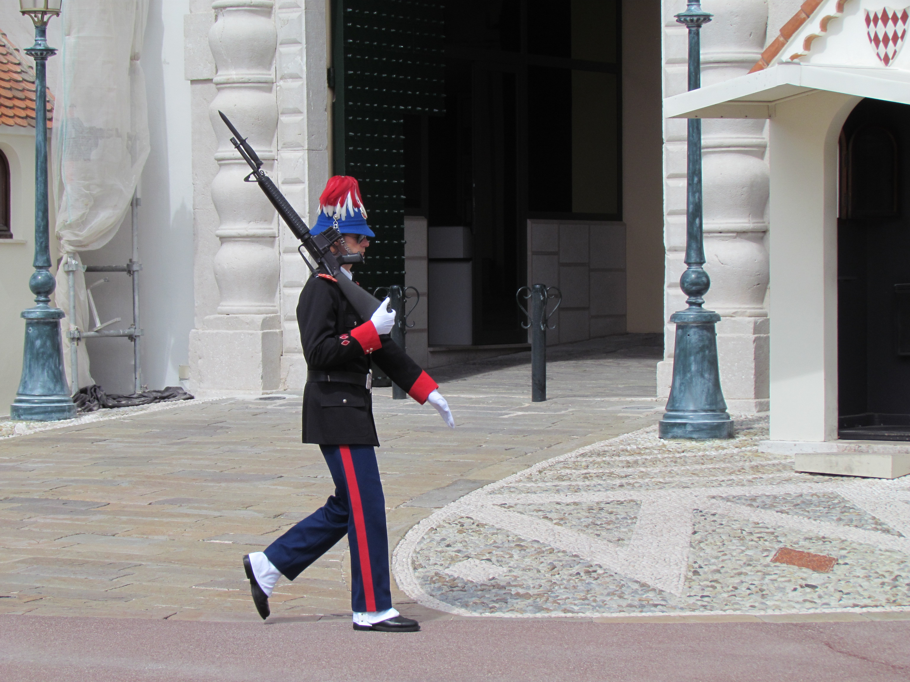 Palace guard at the palace of Monaco.